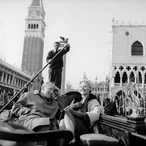 ITALY - JANUARY 01: The French Actors Bourvil And Michele Morgan Talking On A Gondola Between Two Takes, During The Shooting Of The Film Le Miroir A Deux Faces (Directed By Andre Cayatte), On Saint Marc's Square In Venice, In 1958.